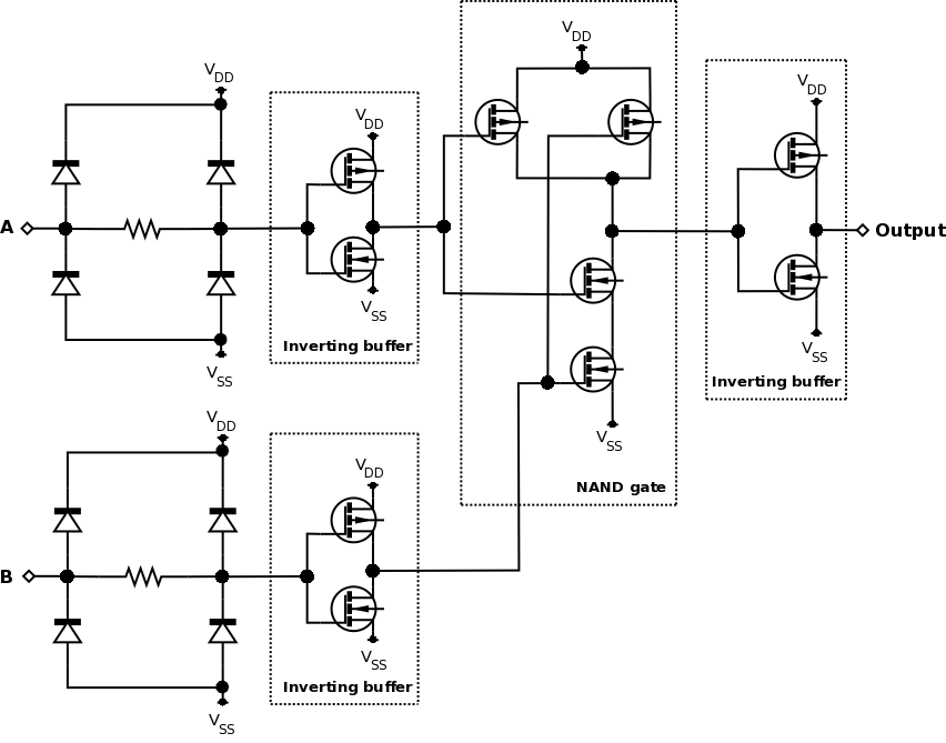 Buffered CMOS two input NOR gate